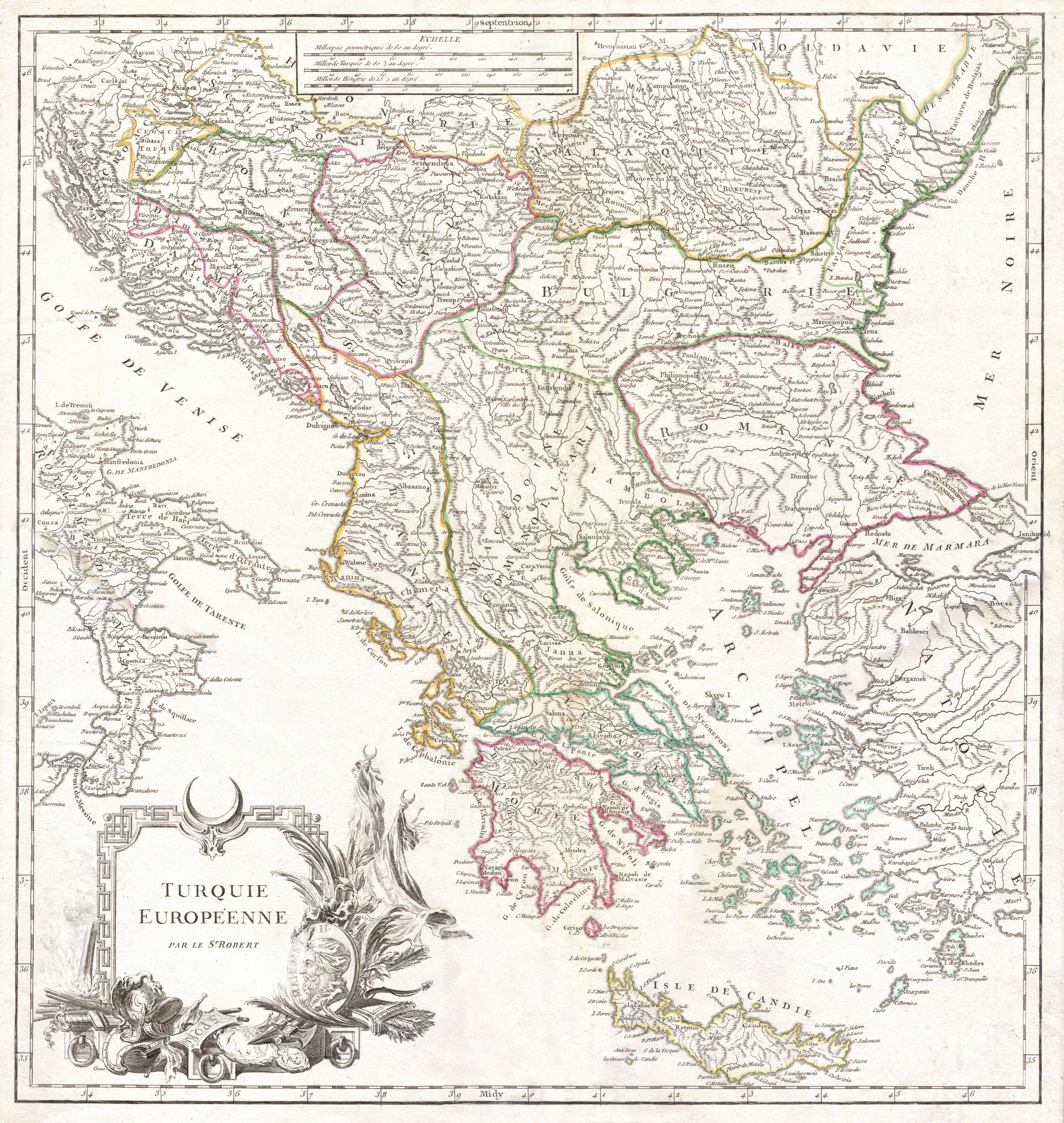 Old french map of the European Turkey (Balkan peninsula) 1752